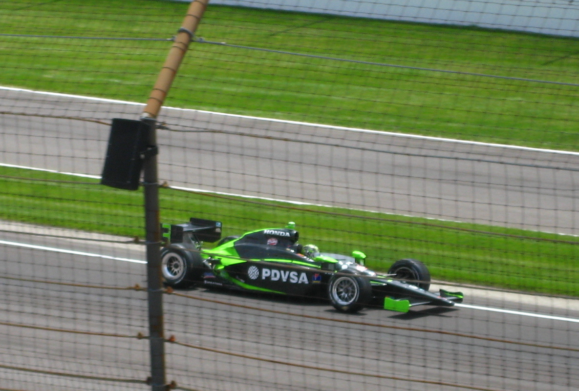 E. J. Viso driving at the Indianapolis Motor Speedway in 2008